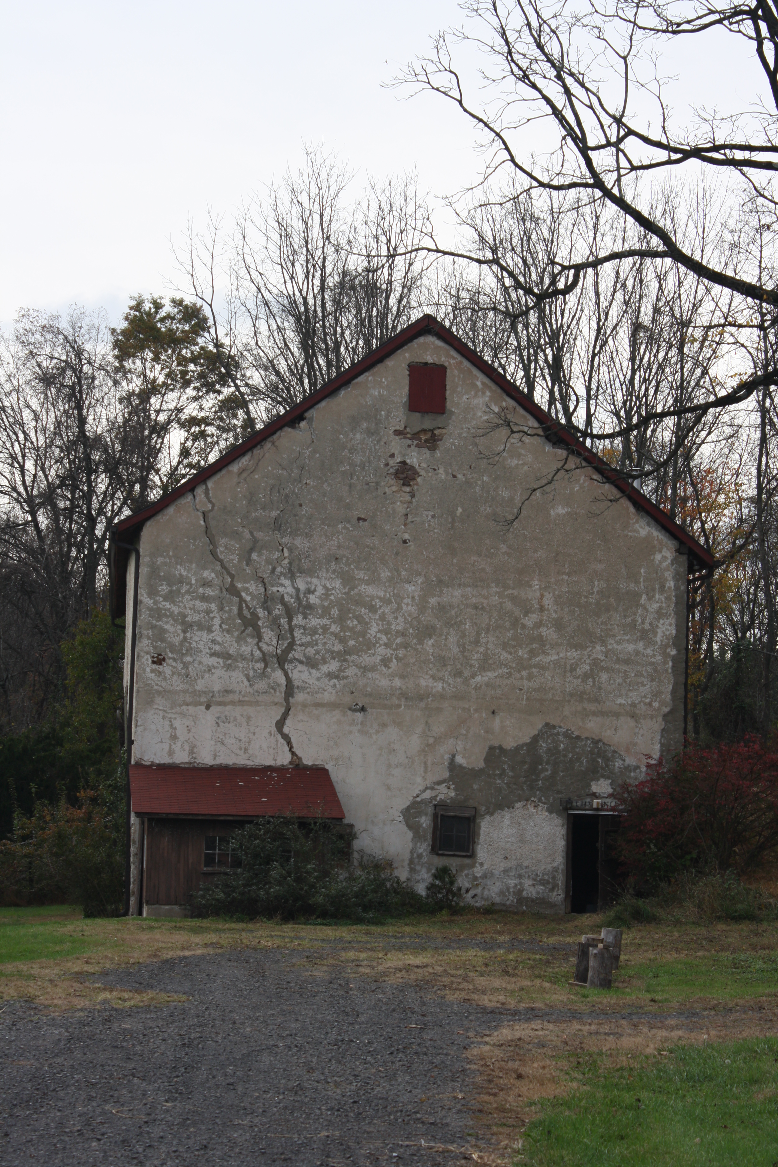 Morgan James Homestead is a historic home located at New Britain Township, Bucks County, Pennsylvania. Barn. Object location40° 18′ 19.08″ N, 75° 12′ 03.96″ W